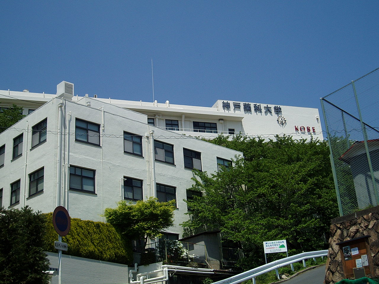 Kobe Pharmaceutical University located in Higashinada, Kobe, Hyogo, Japan.